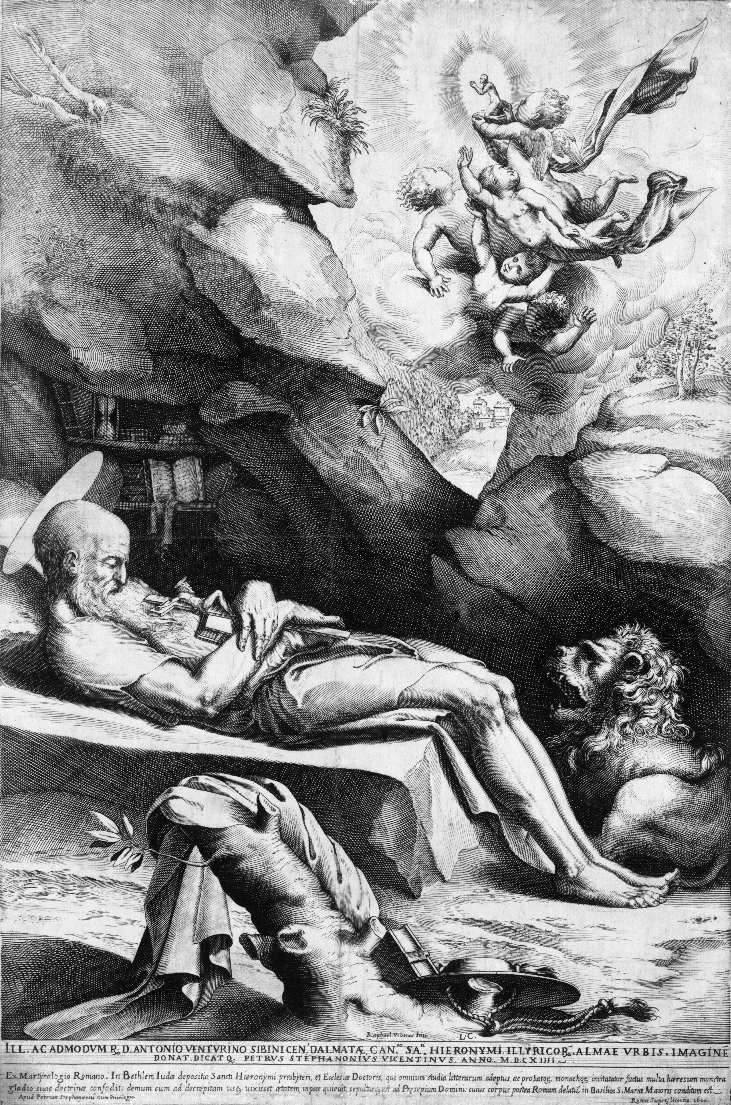 St. Jerome dying in solitude. Engraving, Ciamberlano, Luca (1586-1641), 1614.